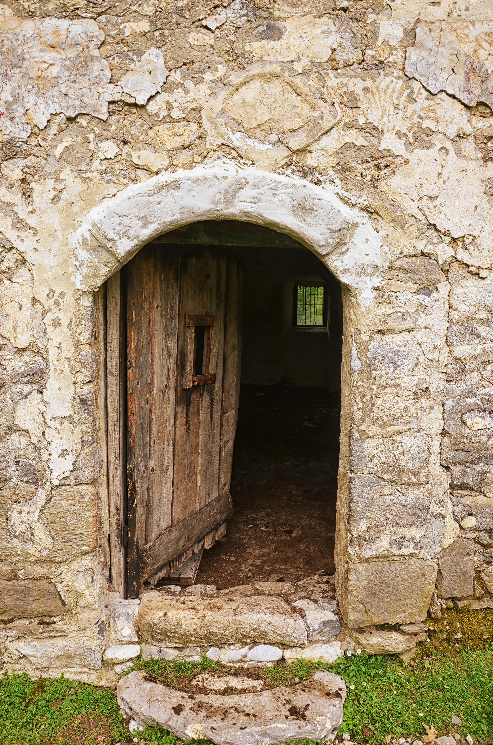 The entrance of the old mosque of Dragobi, Tropojë, Albania